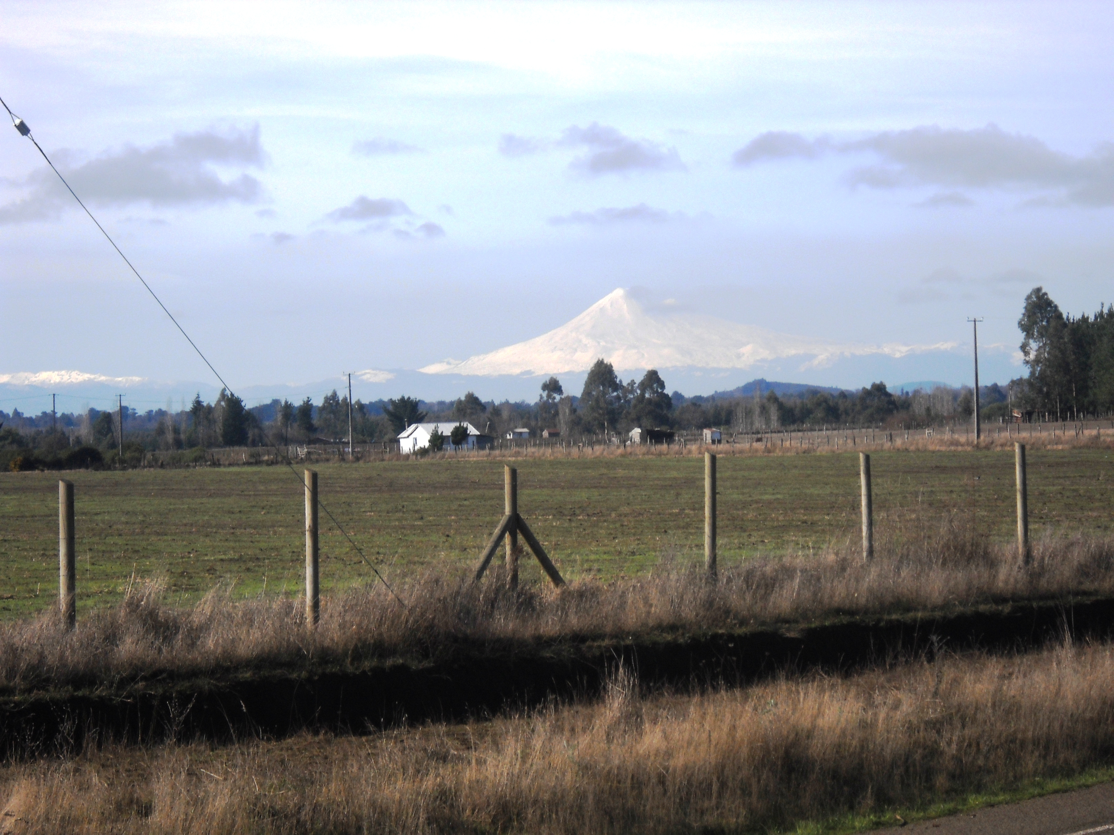 Llaima Volcano, seen from the route IX-S10